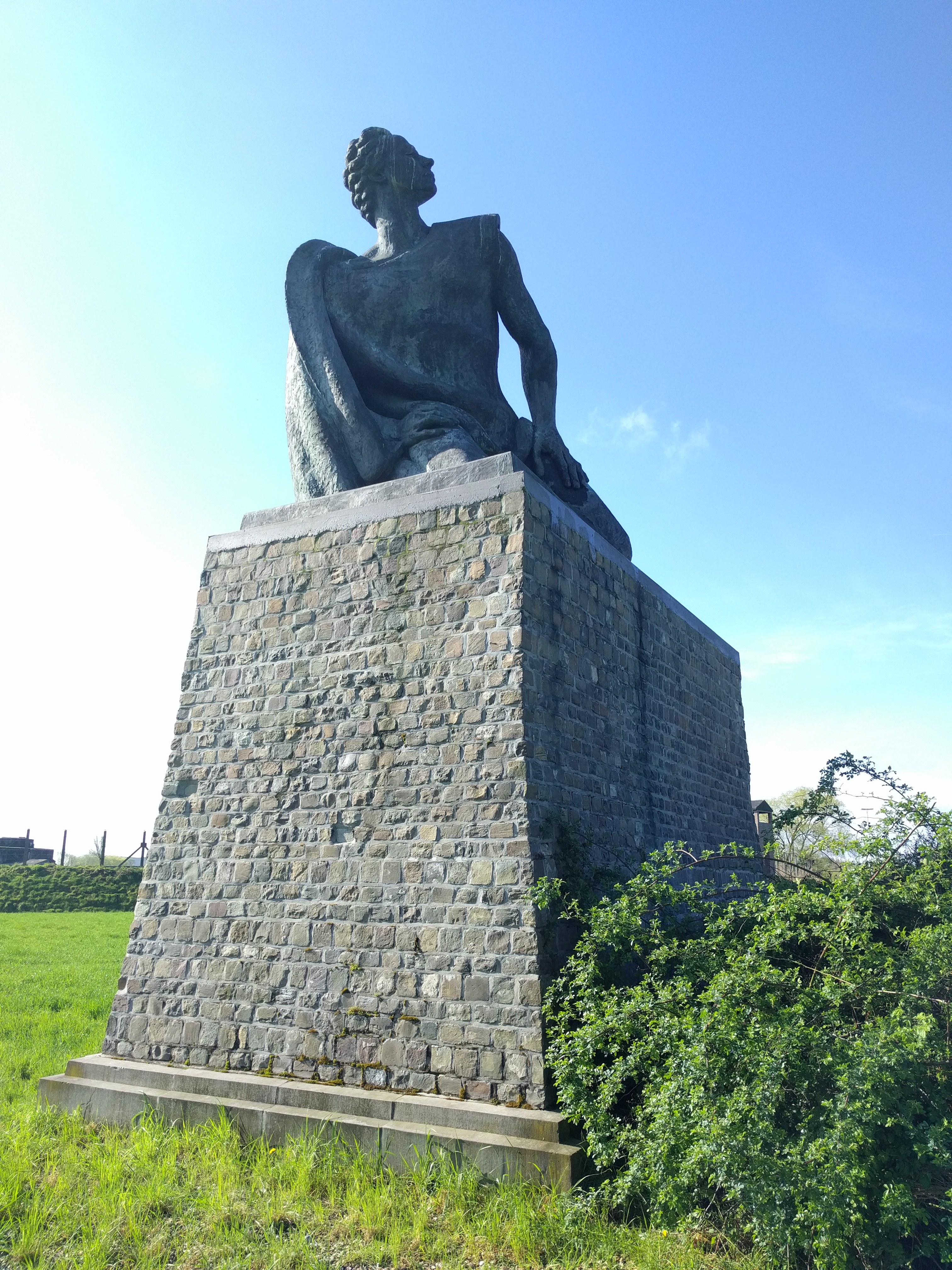 Statue 'The Resistance Fighter' by Idel Ianchelevici, with the Fortress of Breendonk in the background